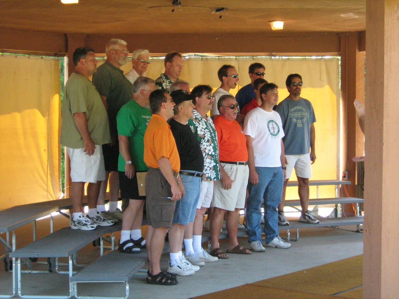 Harmony Weekend 2007, Men's Full Chorus, taken by MoodyGroove.